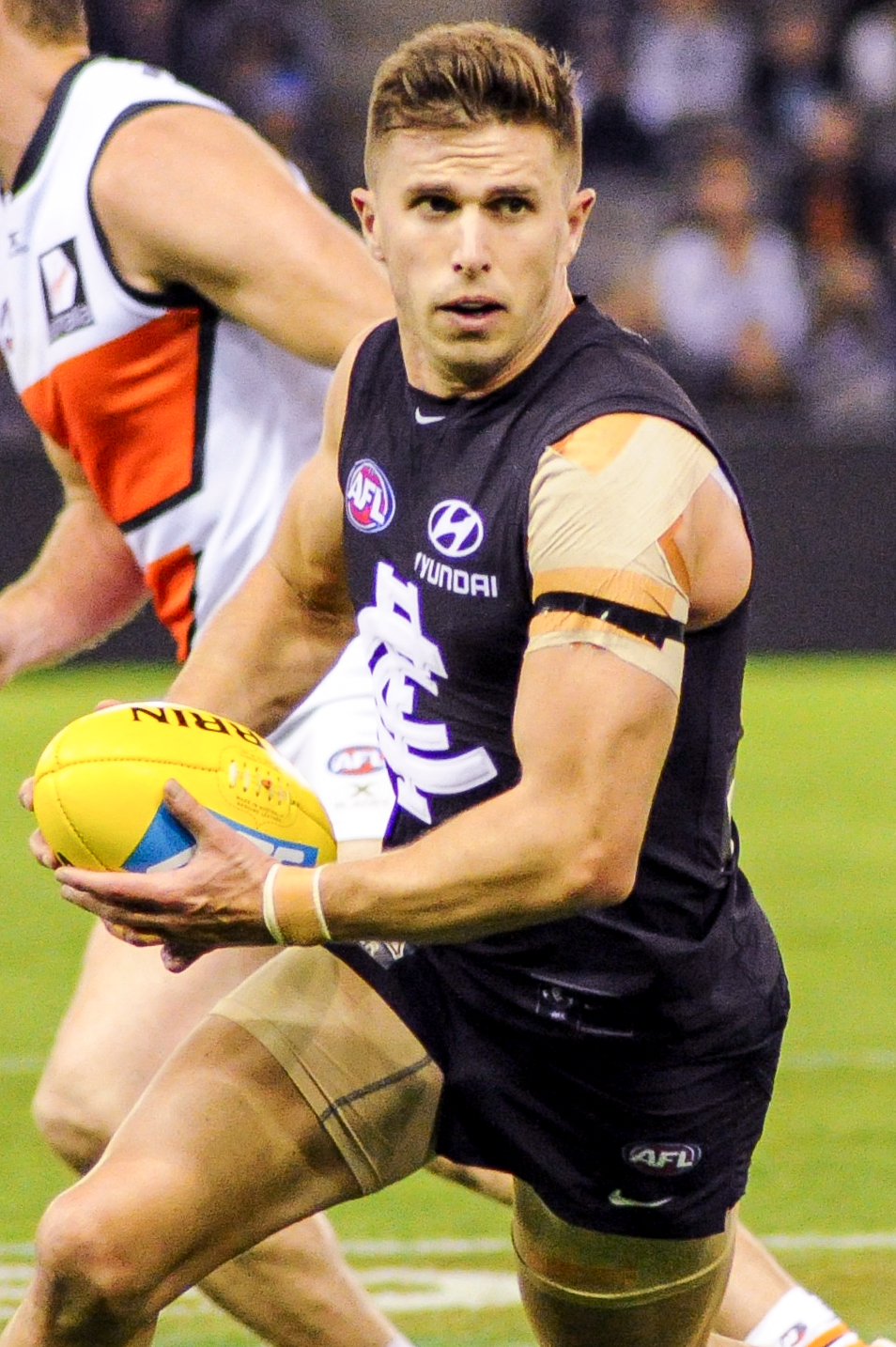 Marc Murphy during the AFL round twelve match between Carlton and Greater Western Sydney on 11 June 2017 at Etihad Stadium in Melbourne, Victoria.